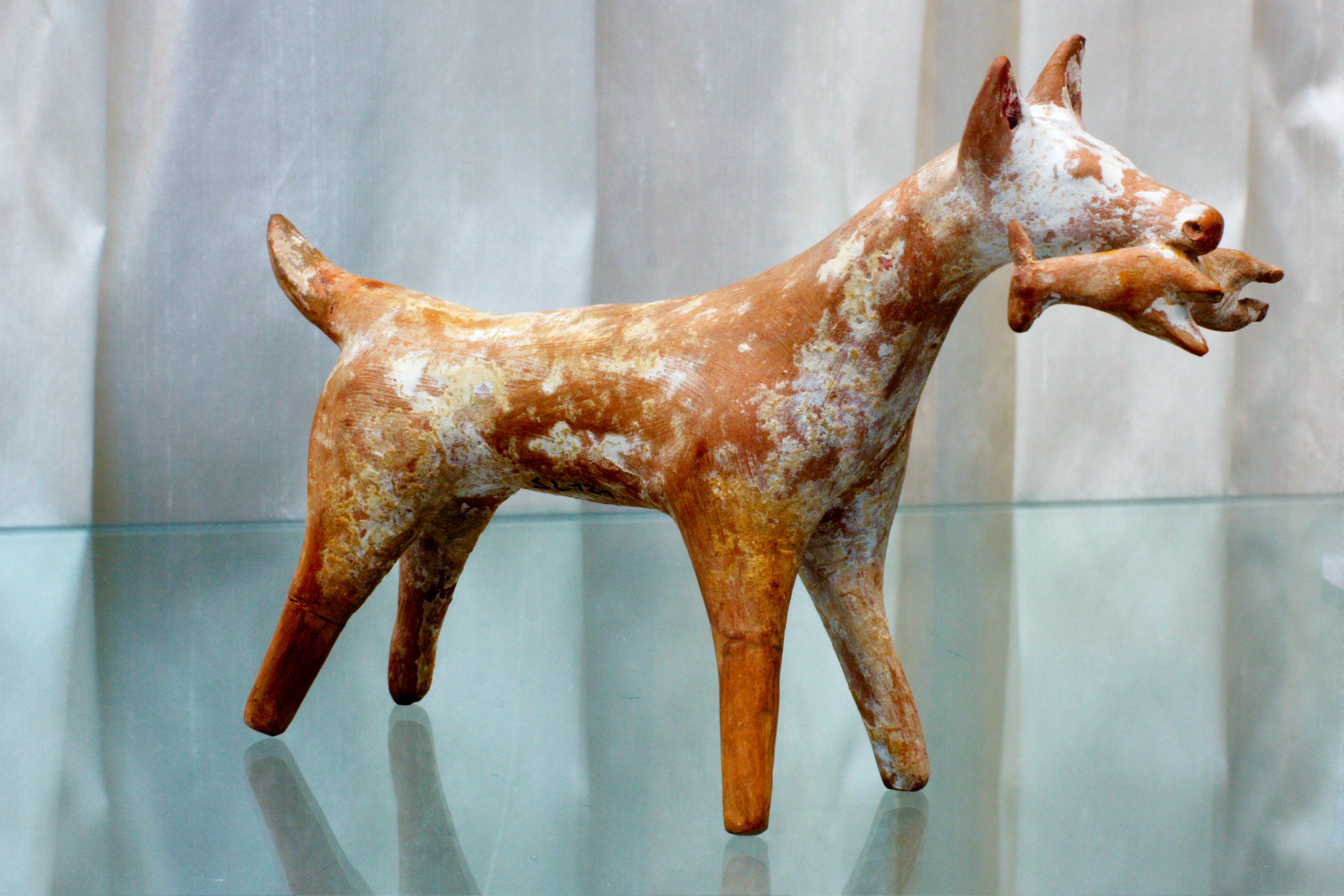 A hound carrying her pup